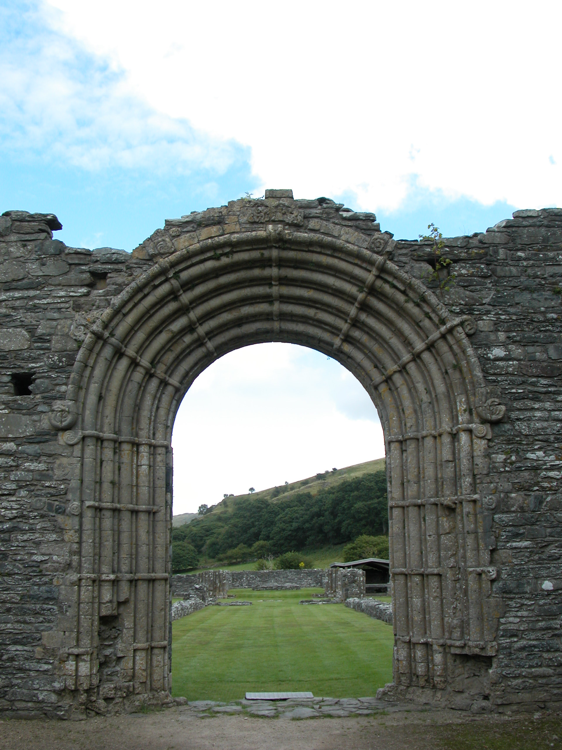 The entrance archway to Strata Florida Abbey.